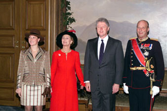 President Bill Clinton surrounded by the Norwegian royal family at the Royal Palace in Oslo. (Left to right: Princess Märtha Louise, Queen Sonja, Bill Clinton, and King Harald V of Norway.)